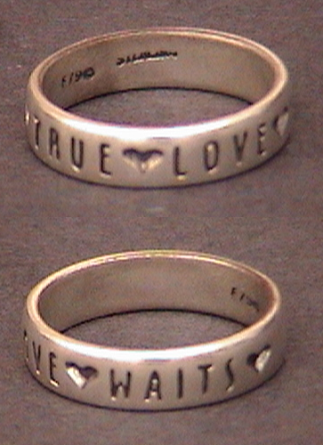 This is NOT a Silver Ring from the Silver Ring Thing organization. Multi-view compilation of an alleged "Silver Ring Thing" reading True Love Waits. Photo by J. Lindsay, Weaponofmassinstruction 20:08, 9 June 2006 (UTC) Ring belongs to J. Coker, Lynn Lake, MB. Photo and Modification date - June 9th, 2006